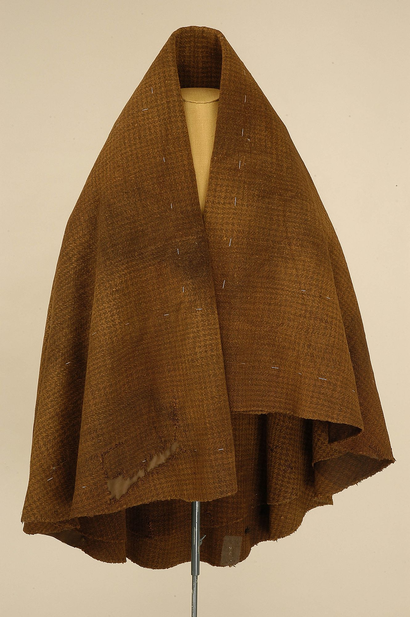 Gerum cloak Gerum mantle